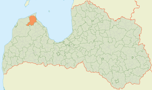 Location of Dundaga Parish in Latvia